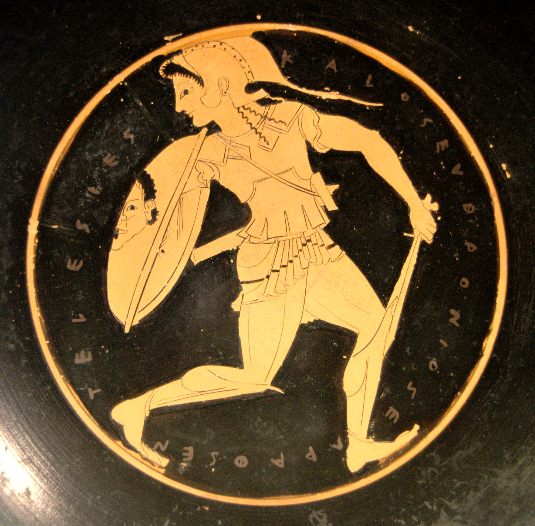 Fleeing Amazon. Tondo of an Attic red-figure kylix, 510–500 BC. Inscription: TELESIES KALOS EUPHRONIOS EGRAPHSEN